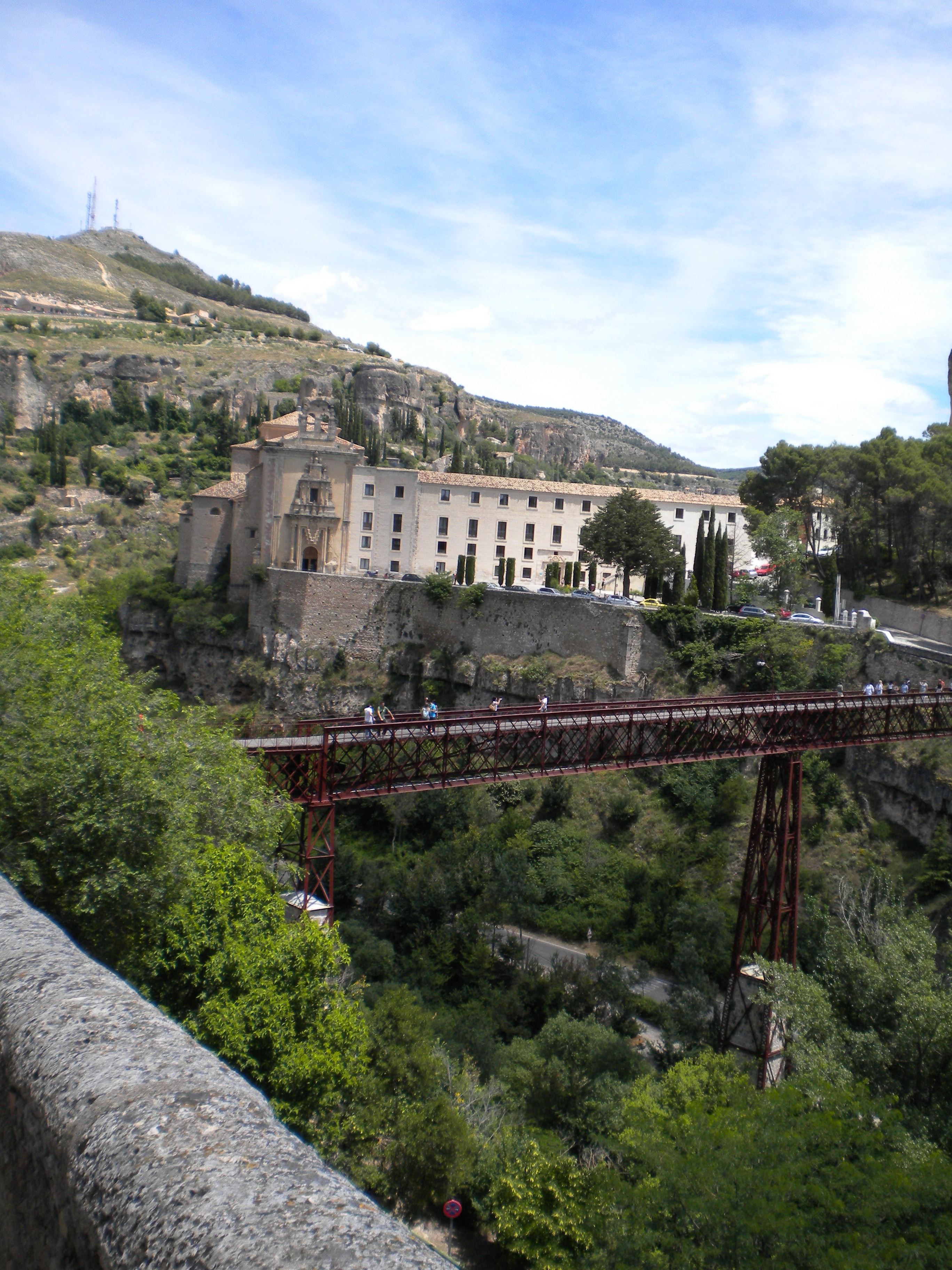 Designed by Eiffel a Bridge in Cuenca Spain same person who designed the Eiffel Tower in Paris